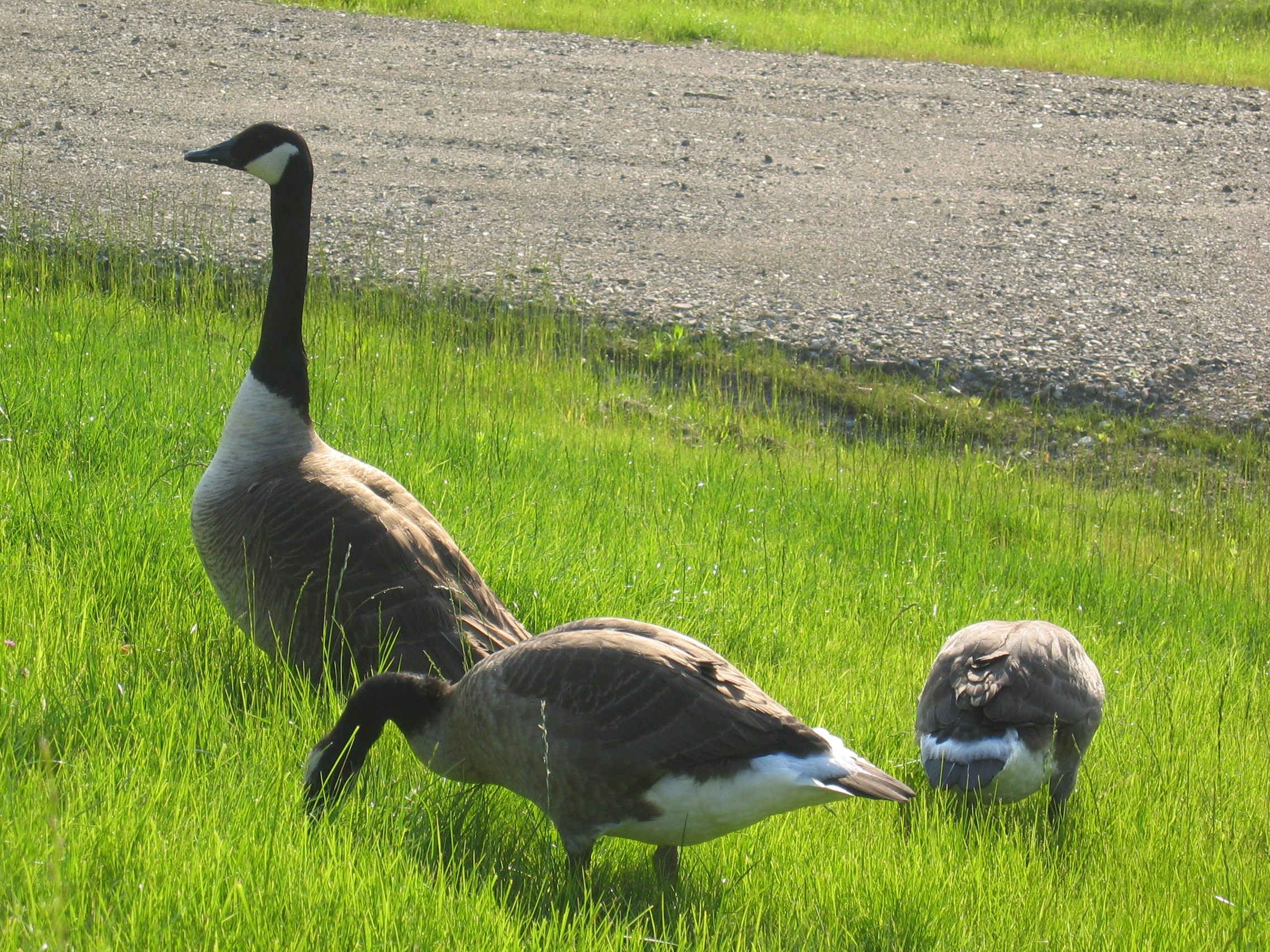 Canada Geese; adult (left) with two juveniles